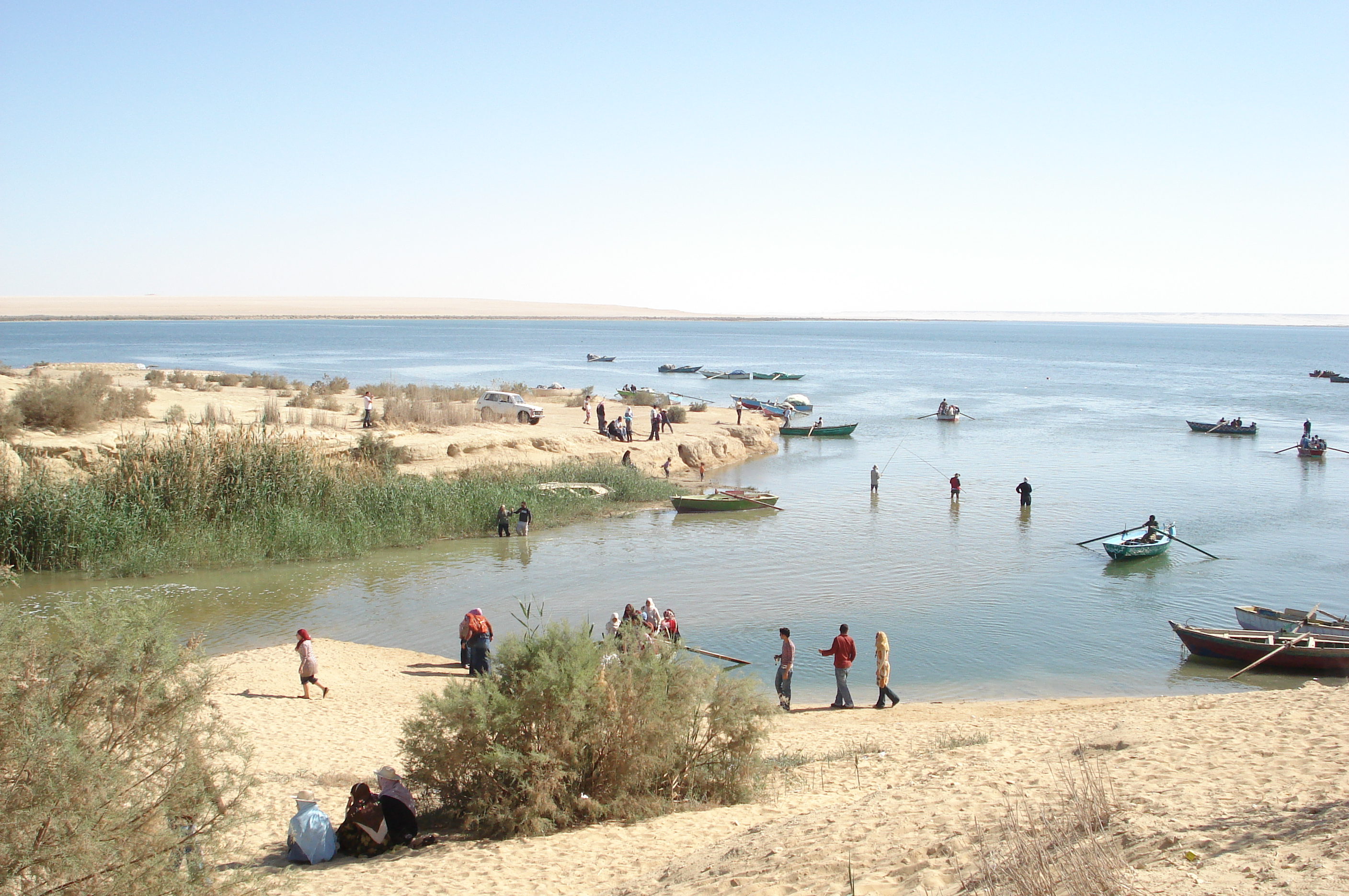 Fayum Egypt